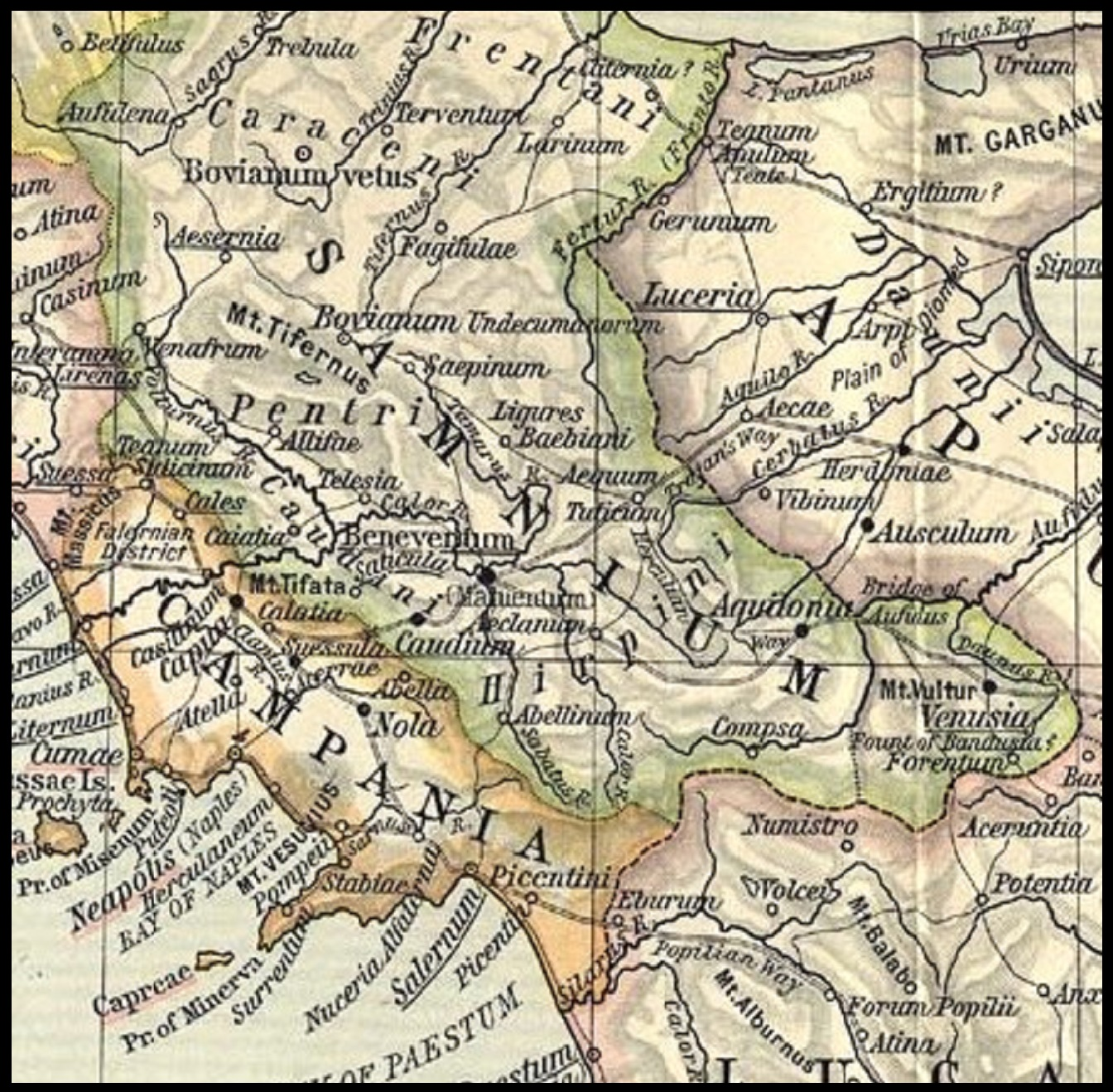 Map of Campania and Samnium, cropped from old public domain map of Italy, from the Perry-Castañeda Library Map Collection, Historical Atlas by William R. Shepherd north, south